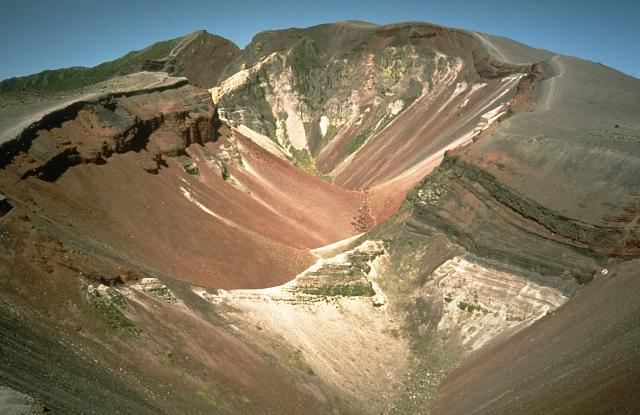 This large fissure system produced during a major explosive eruption at Tarawera in 1886 is one of the most dramatic features of the massive Okataina Volcanic Centre.